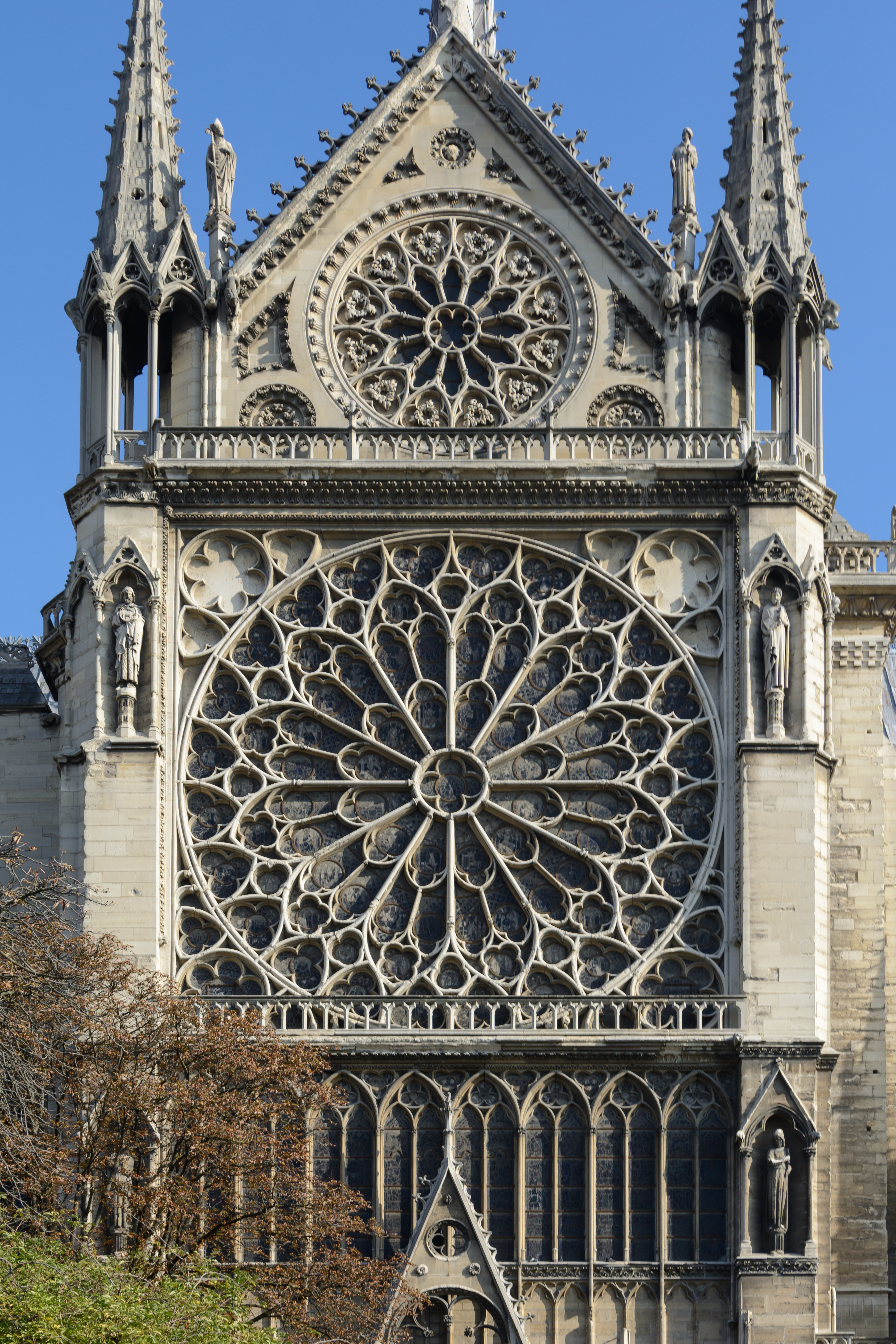 Façade and rose window of the south transept of cathedral Notre-Dame de Paris, France .